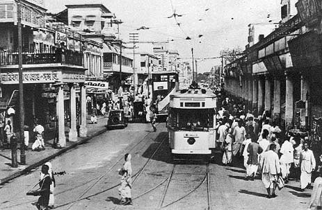 trams of British India